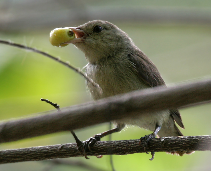 Tickell's Flowerpecker or Pale-billed Flowerpecker Dicaeum erythrorhynchos at Lotus Pond, Hyderabad, India.